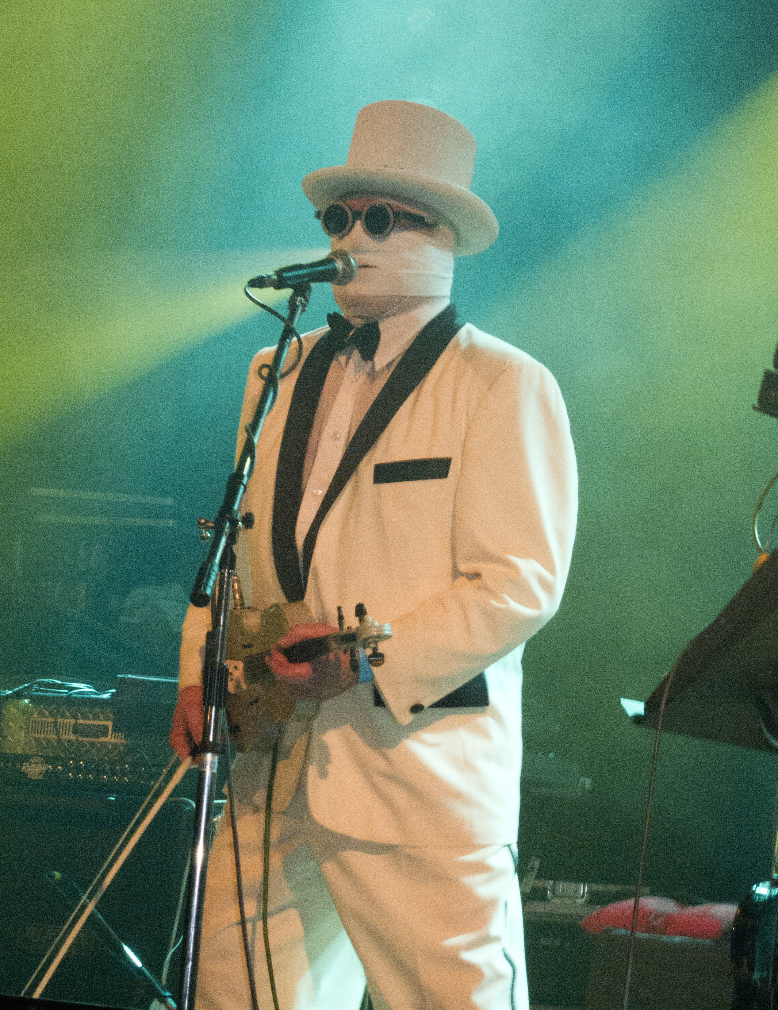 Nash the Slash performing at the Opera House in Toronto